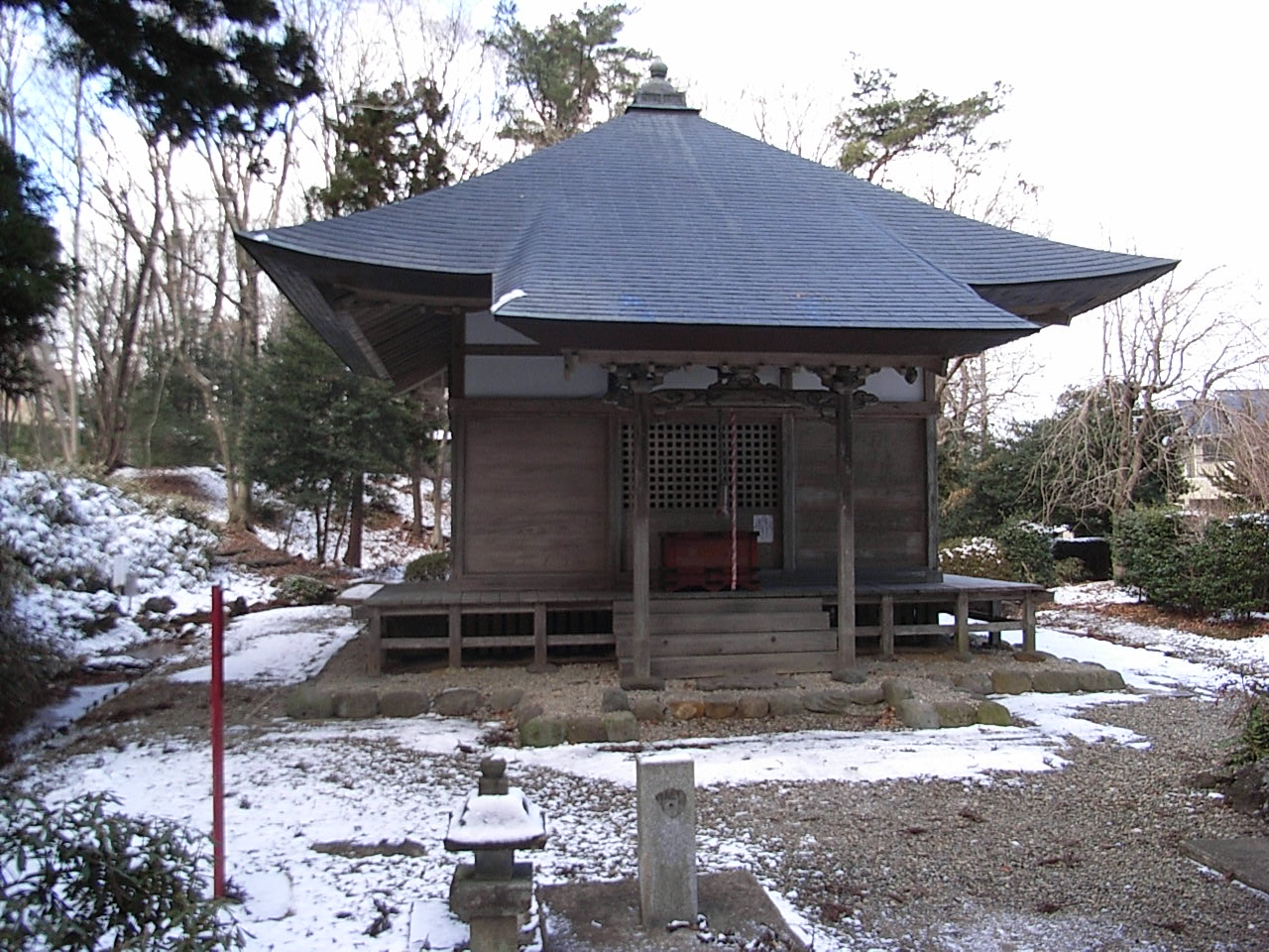 Benzaiten shrine in Rinzai-in Temple. Rinzai-in, Aoba ward, Sendai, Miyagi prefecture, Japan. Northward from the front.